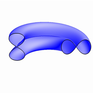 Cross section of the Klein bagel employing a lemniscate curve.